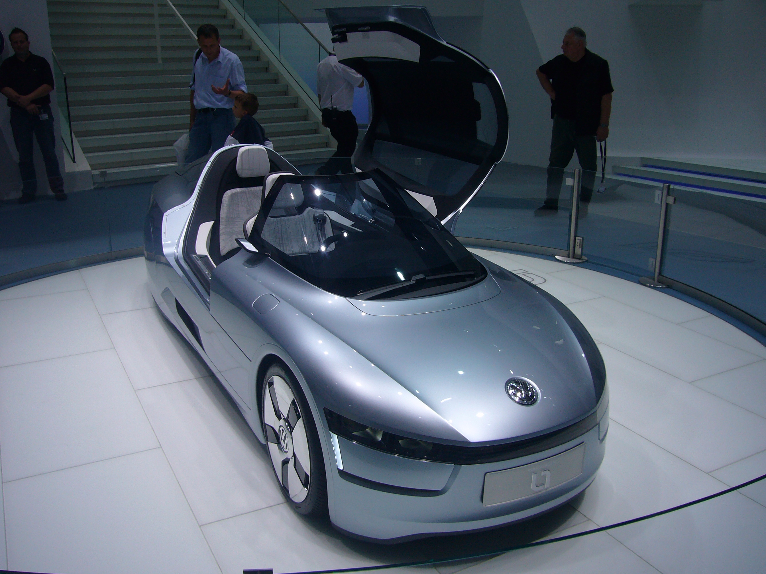 Volkswagen L1 Concept at IAA Frankfurt 2009